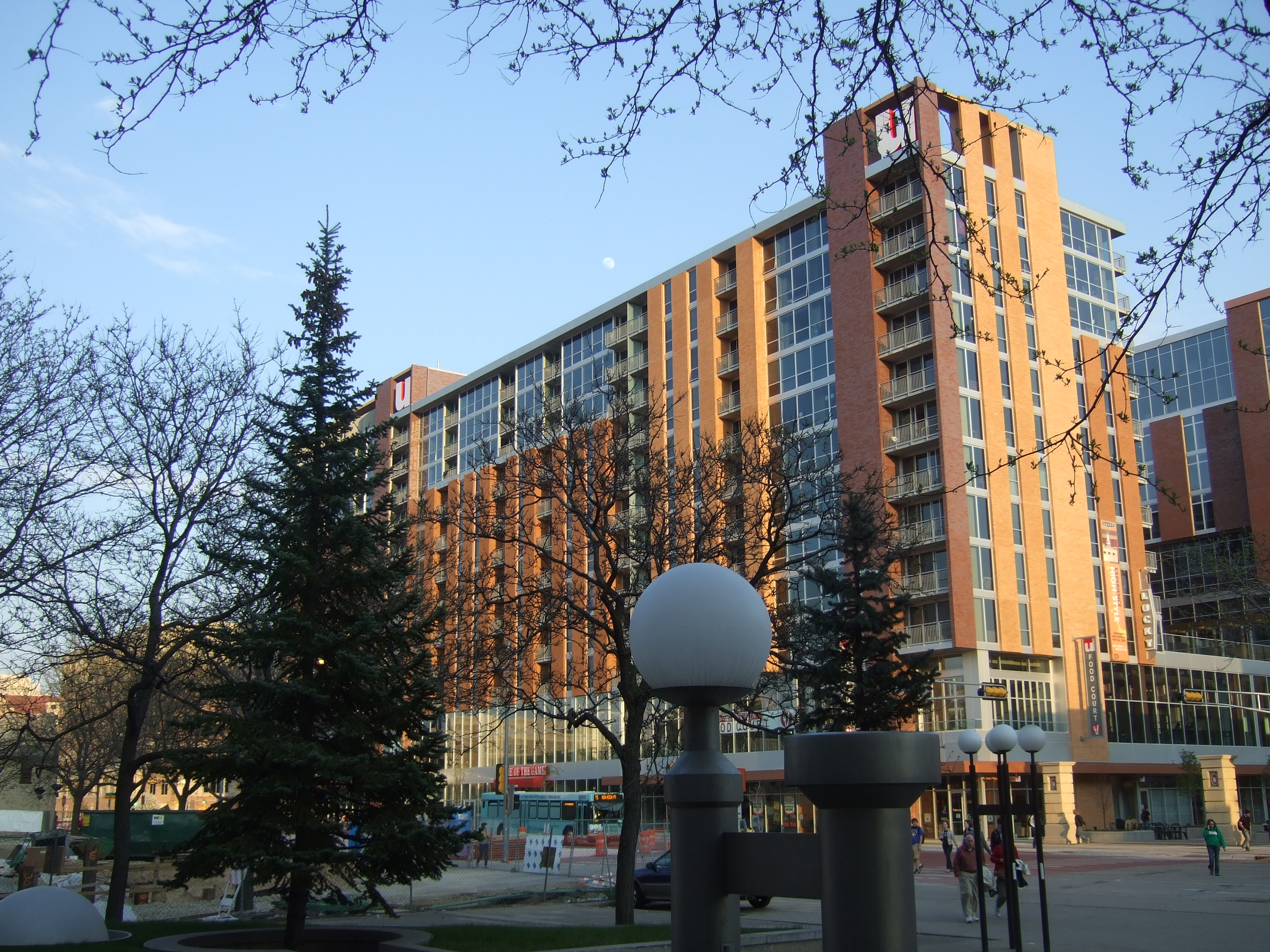 The "Lucky Apartments", part of the University Square complex in Madison, Wisconsin, opened in 2008.